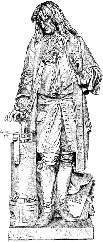 Statue of Denis Papin with his steam digester